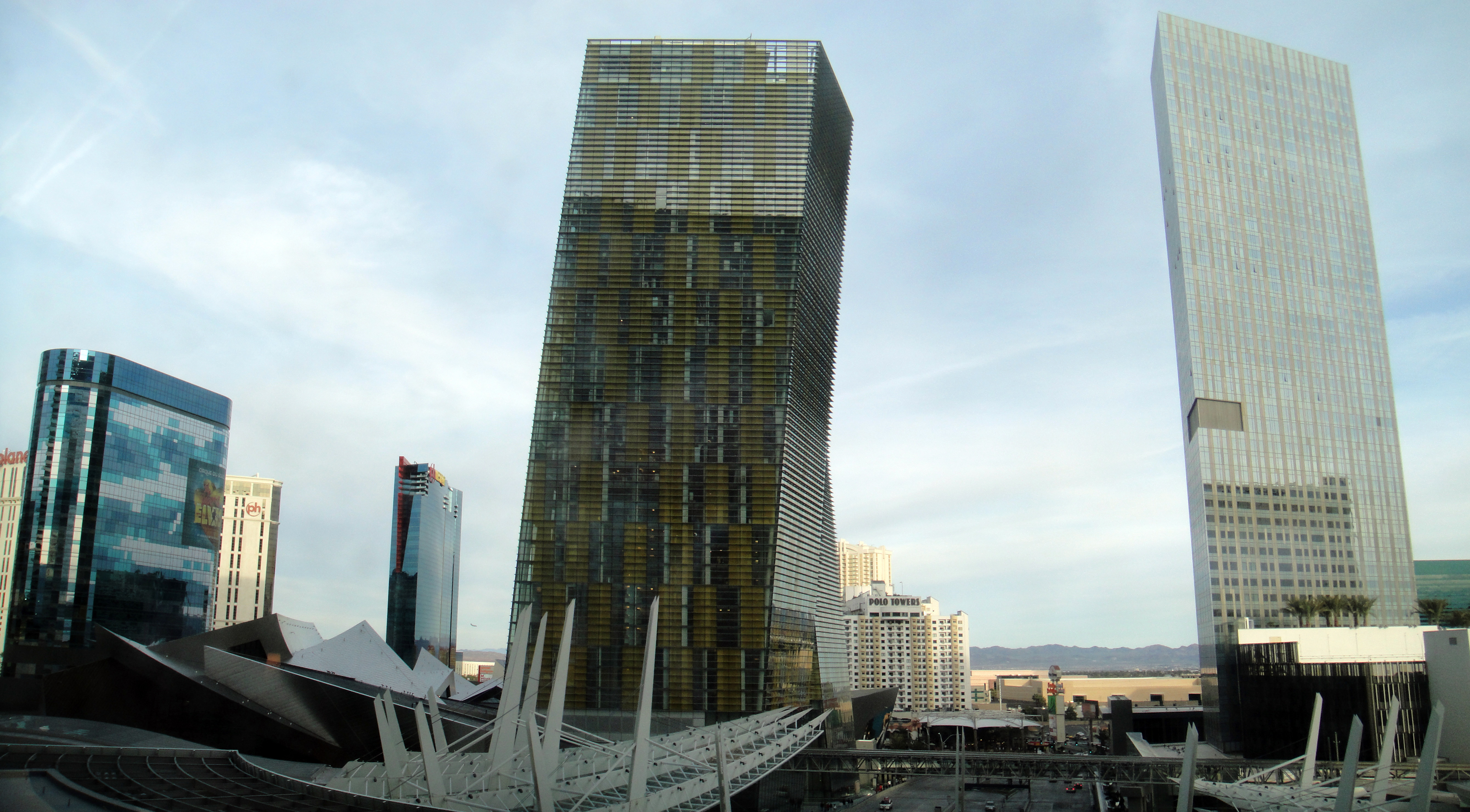 Buildings of CityCenter as viewed from the Aria. From left to right The Harmon, Crystals, Veer Towers and the Mandarin Oriental.